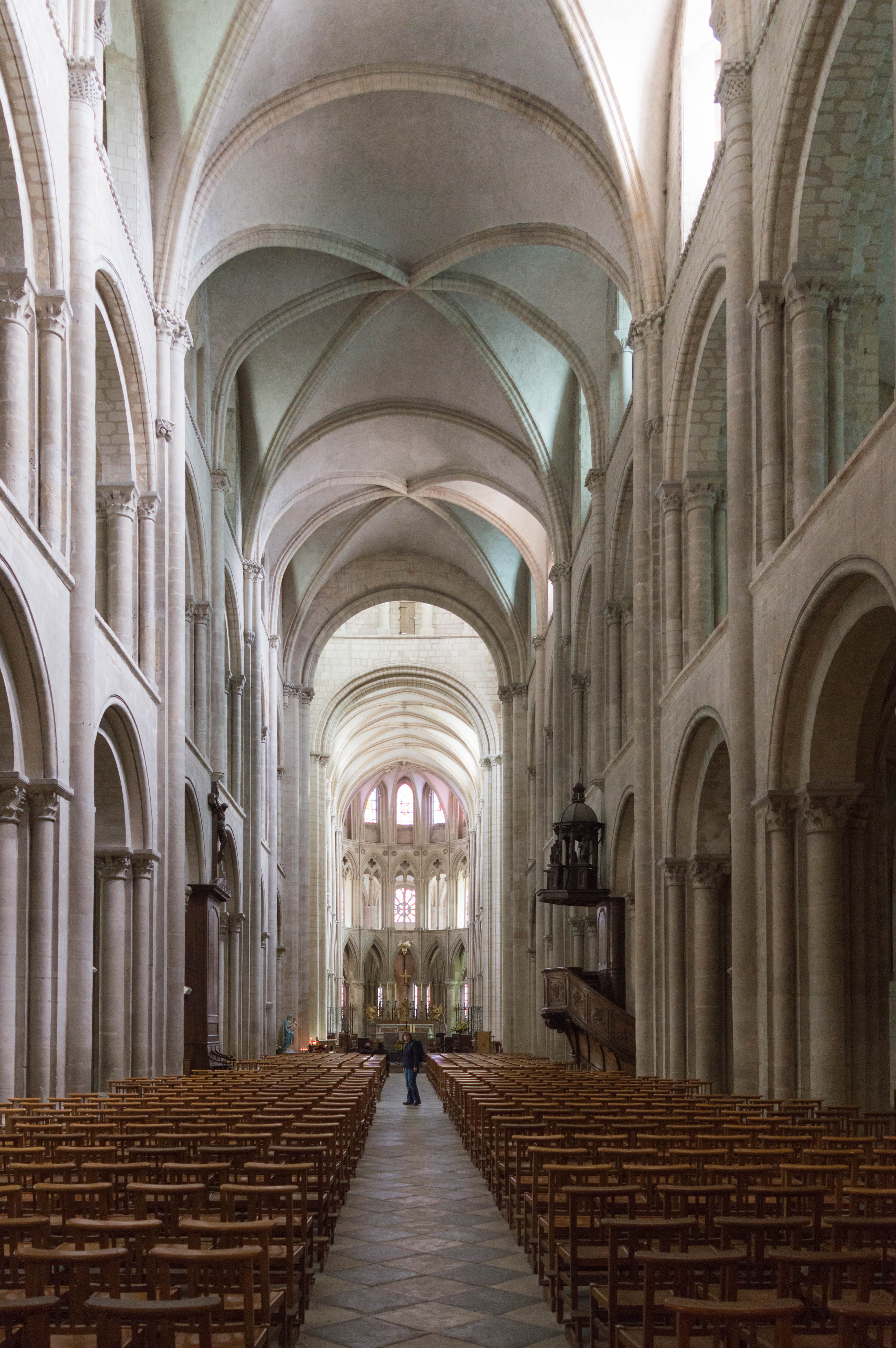 The interior of the church of Saint-Étienne, Abbaye aux Hommes, Caen.